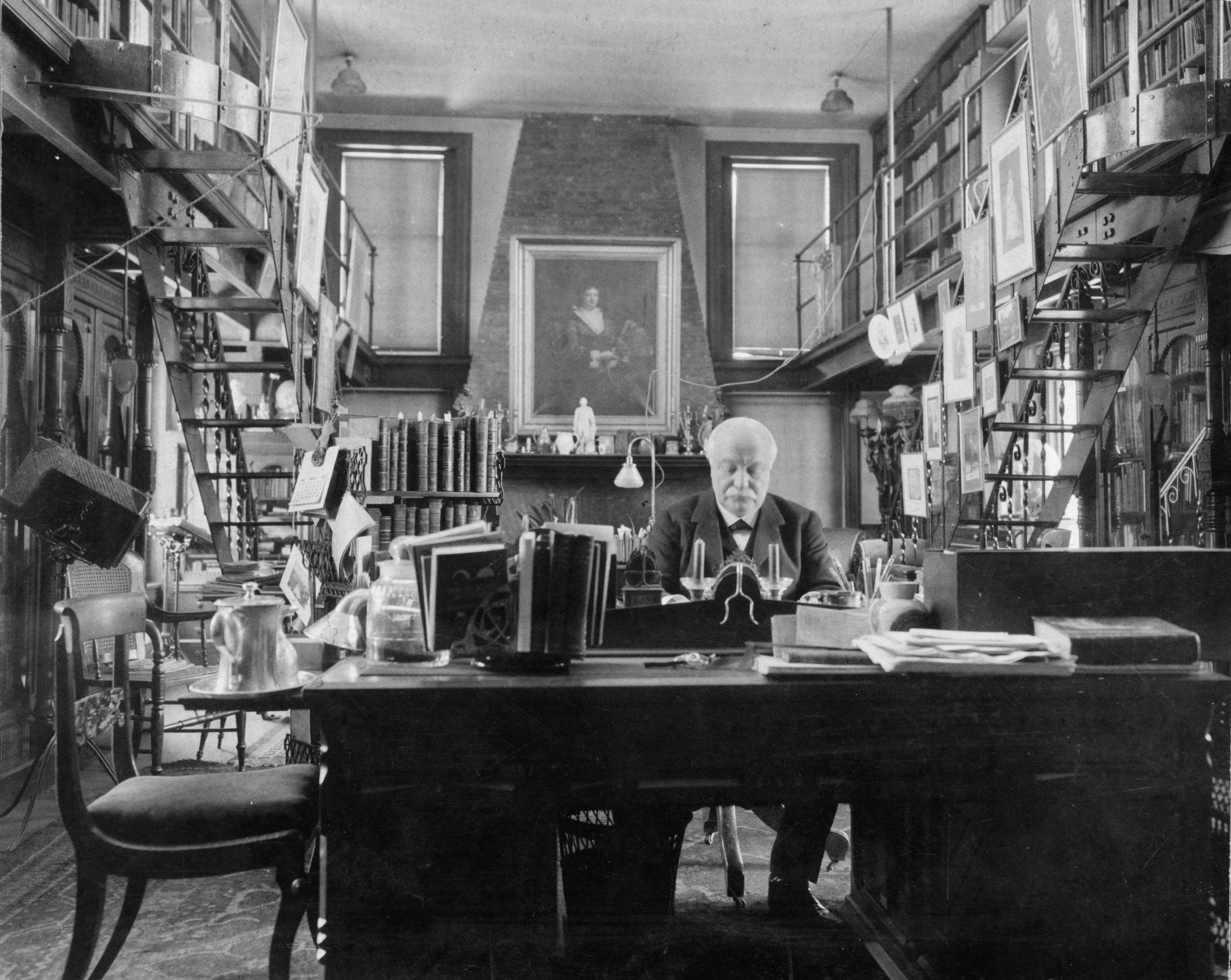 Horace Howard Furness in his library at "Lindenshade" — his house, formerly located in Wallingford, Pennsylvania. Bookcases designed by his brother, architect Frank Furness, and executed by furniture-maker Daniel Pabst are at far left and right. The Furness-Pabst desk in the background right is now at the Philadelphia Museum of Art.